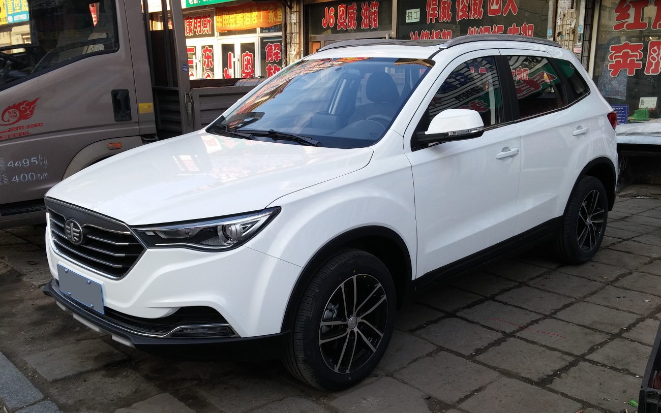 Besturn X40 photographed in Changchun, Jilin province, China.